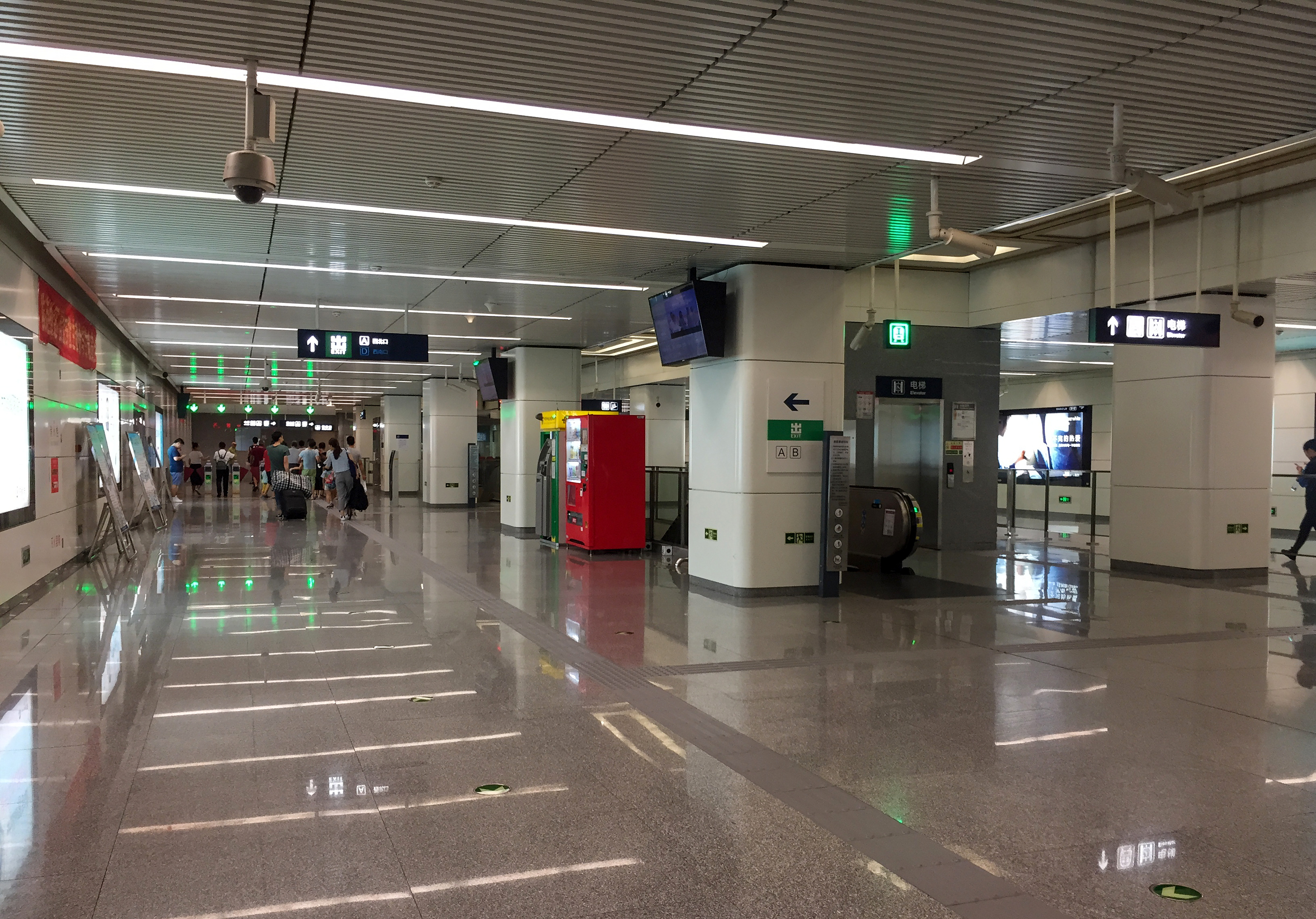 Eqv Fengtai Sports Center.